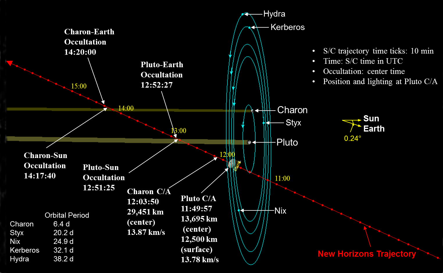 Path of New Horizons' Pluto fly-by on July 14, 2015